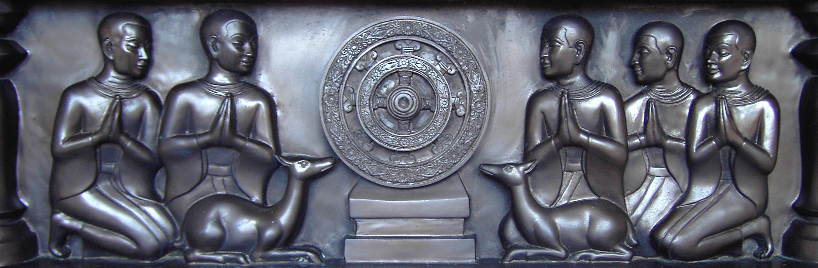 Part of a Buddha-statue, showing the first five disciples of the Buddha at the Isipatana Deerpark of Sarnath, showing their respects to the Wheel of the Dhamma.